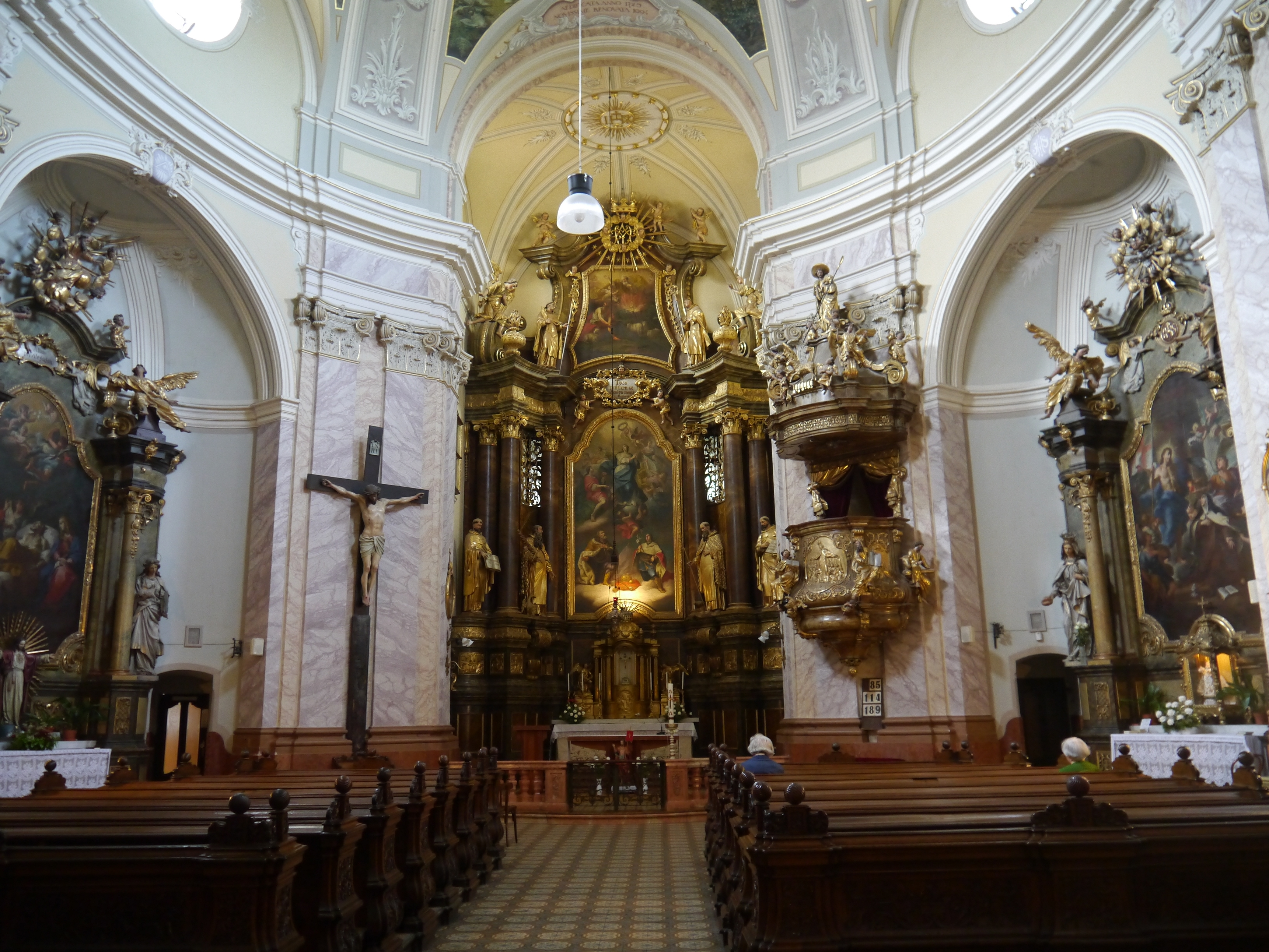 Interior of the Carmelite Church, Györ, Western Hungary